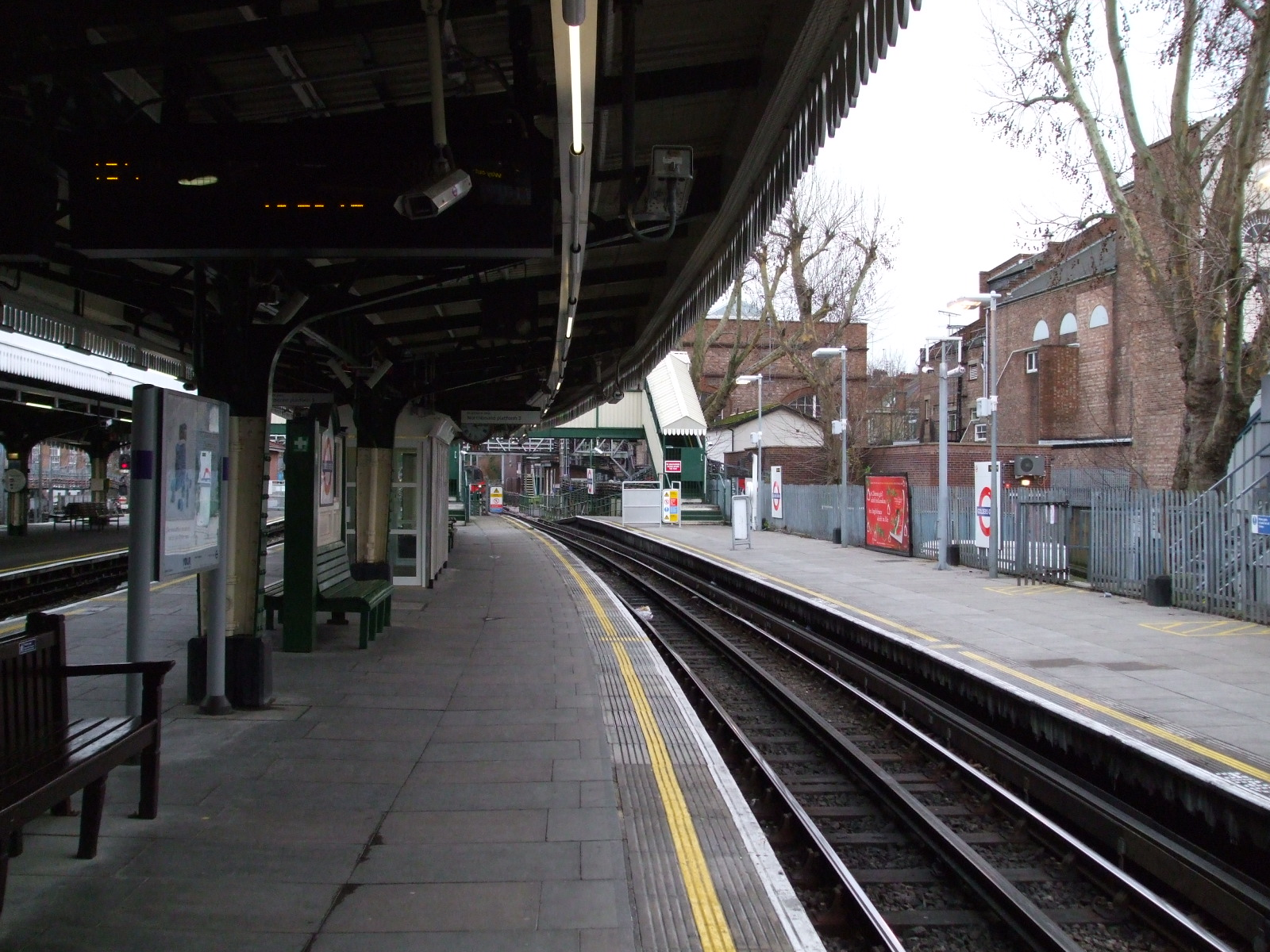 Golders Green tube station northbound platforms looking south